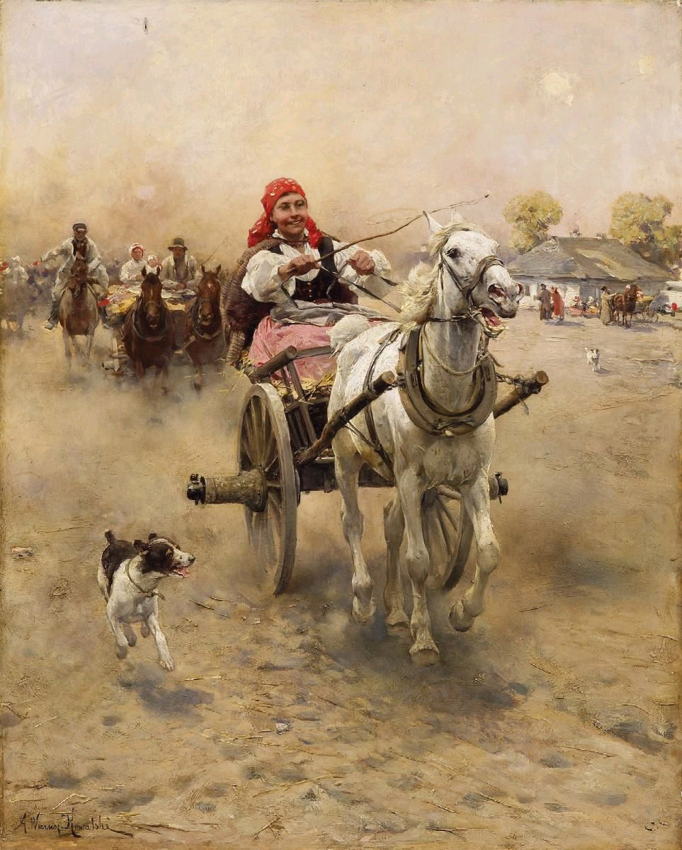 Joyful Ride (Brichka).